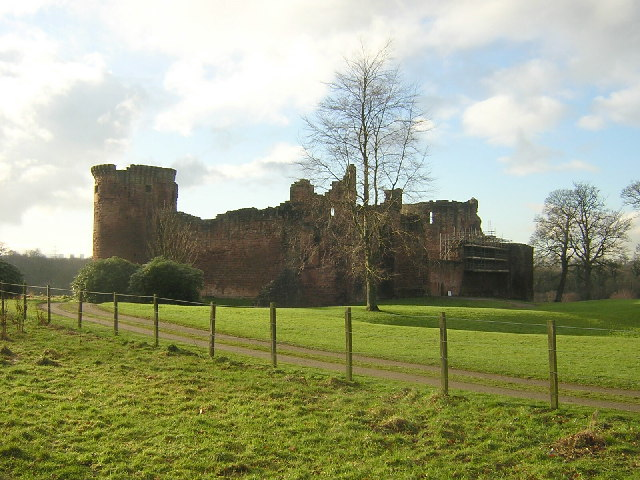 Bothwell Castle